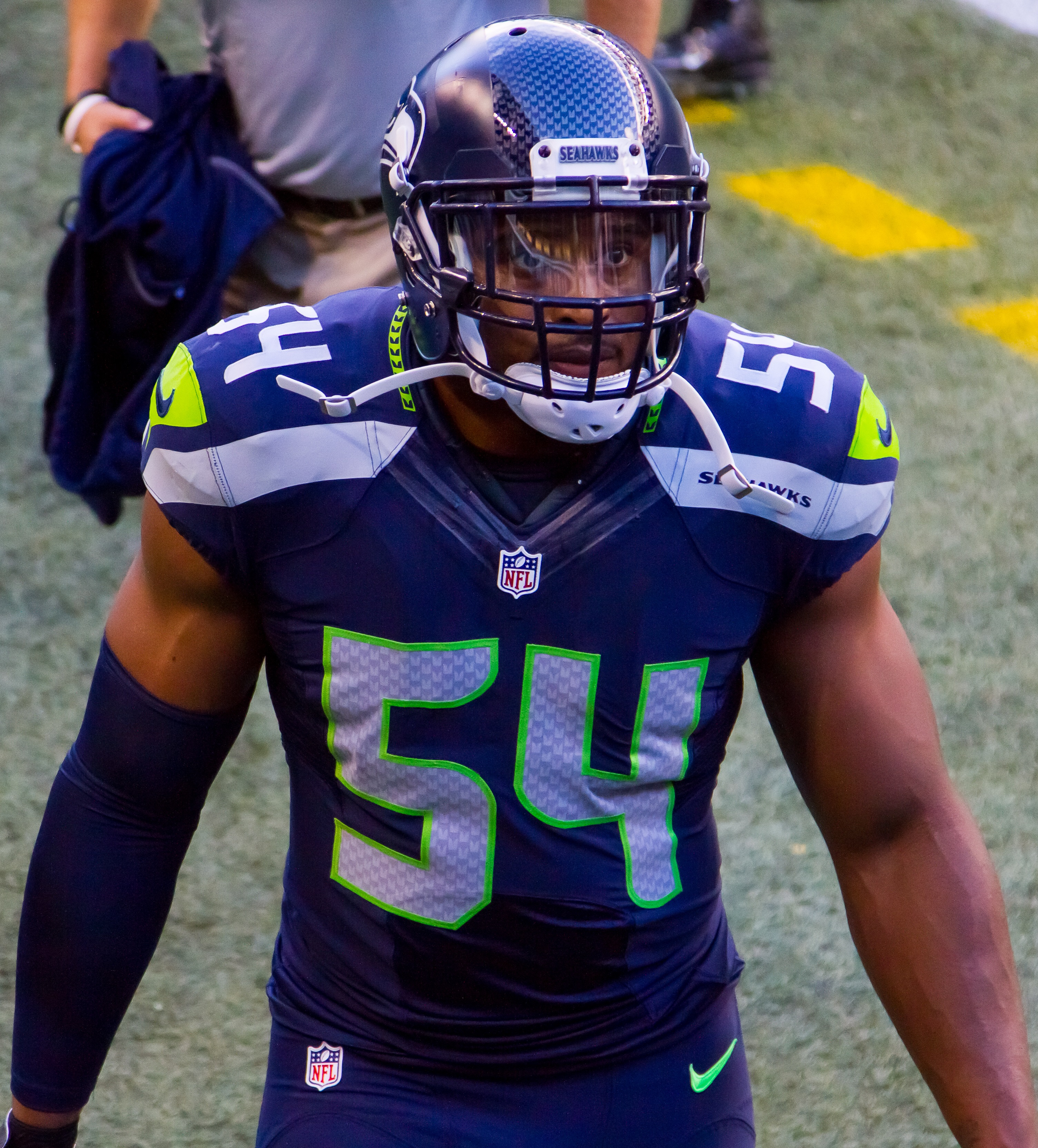 2015 preseason